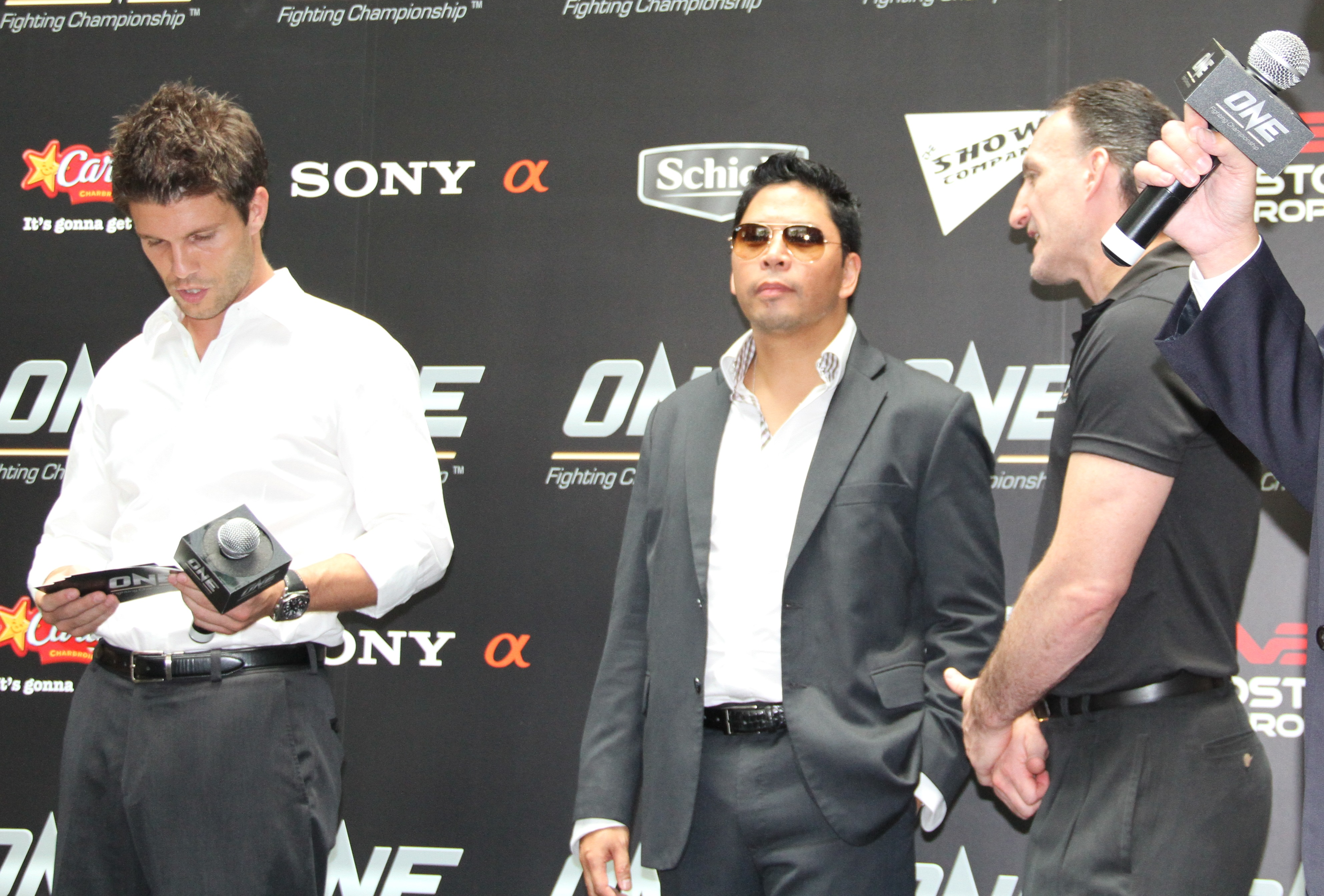 Victor Cui at the ONE FC 'Pride of a Nation' weigh in in Manila